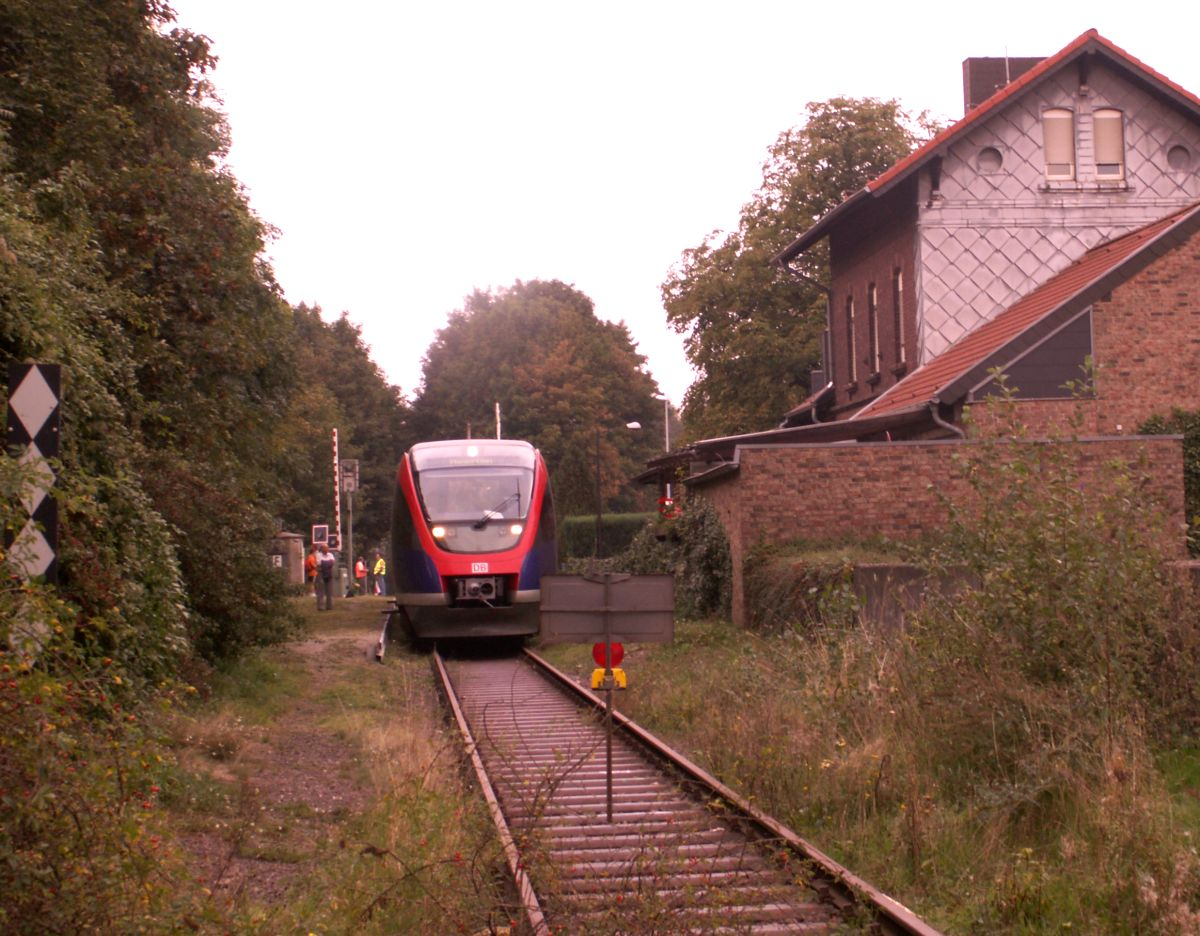 Bombardier Talent class 643.2 from the Euregiobahn at a special trip on the railway line from Stolberg to Eupen at the station of Breinig.